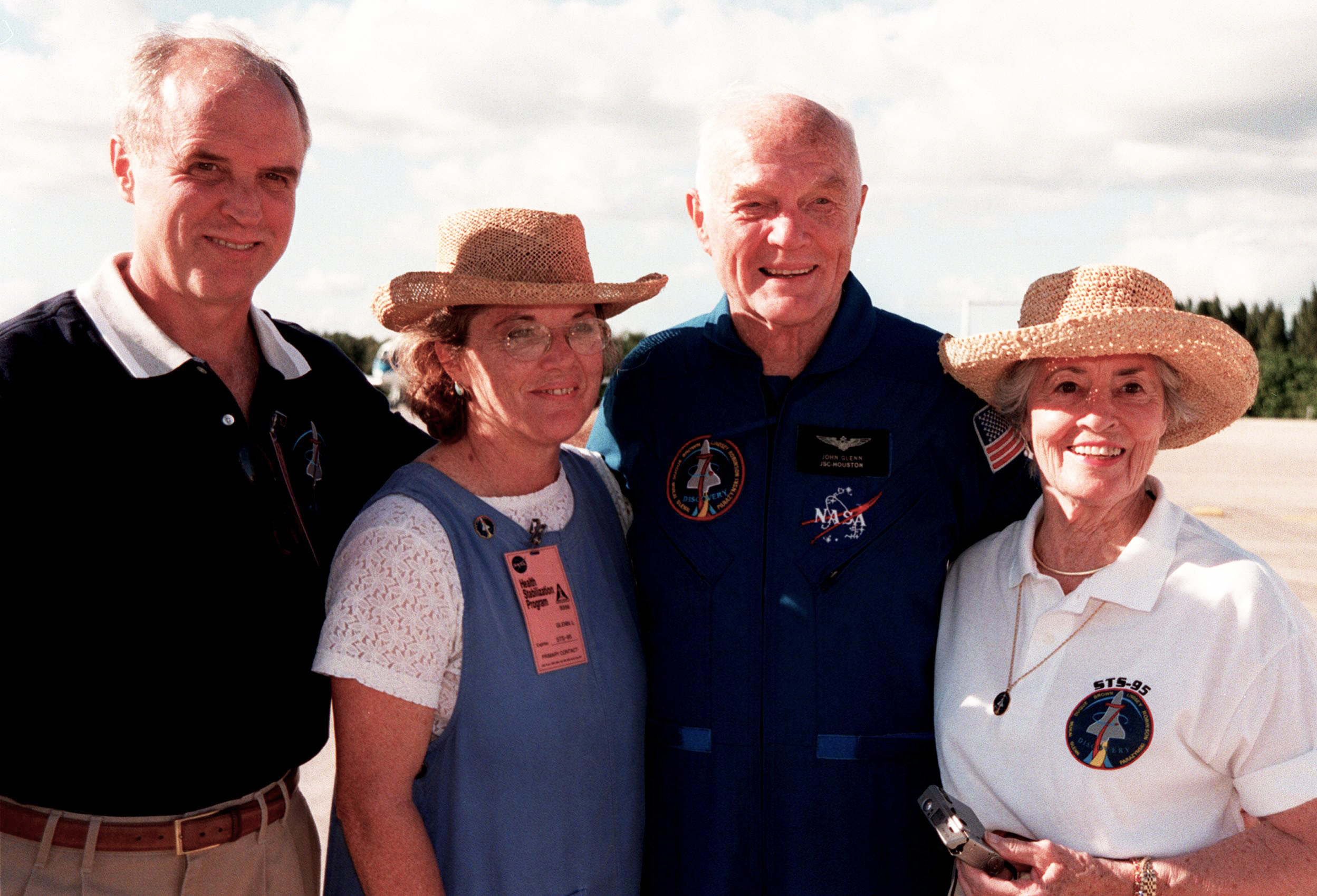 Oct 26, 1998 -- STS-95 Payload Specialist John H. Glenn Jr. (second from right), senator from Ohio, poses (left to right) with his son, David, daughter, Lyn, and (far right) his wife, Annie, after landing at Kennedy Space Center's Shuttle Landing Facility aboard a T-38 jet. Glenn and other crewmembers flew into KSC to make final preparations for launch. Targeted for liftoff at 2 p.m. on Oct. 29, the STS-95 mission includes research payloads such as the Spartan solar-observing deployable spacecraft, the Hubble Space Telescope Orbital Systems Test Platform, the International Extreme Ultraviolet Hitchhiker, as well as the SPACEHAB single module with experiments on space flight and the aging process. Photo credit: NASA NASA image use policy.